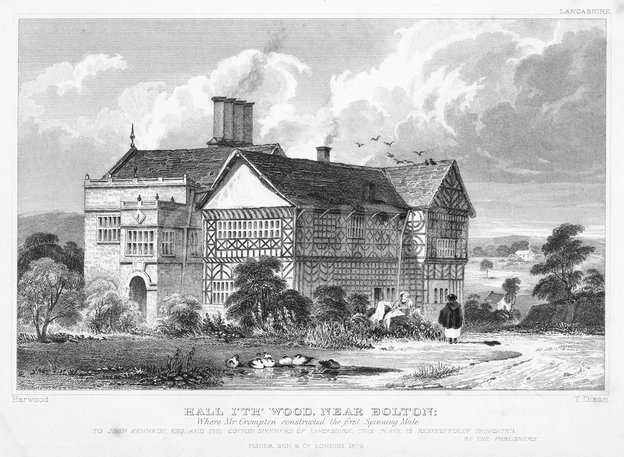 Photograph of an engraving, Hall i' th' Wood near Bolton